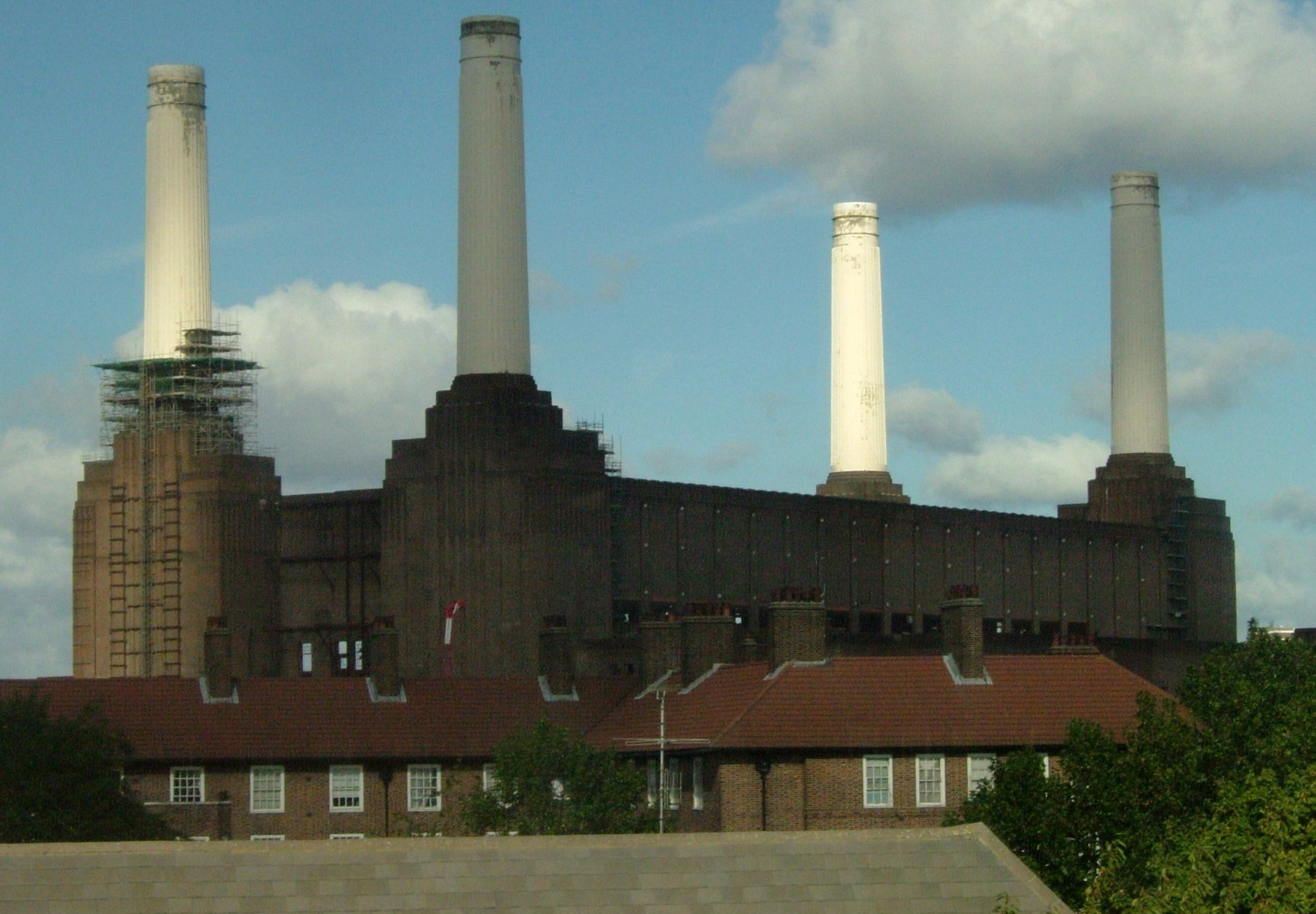 Battersea Power Station in London seen from the Eurostar Battersea Power Station à Londres vue depuis l'Eurostar